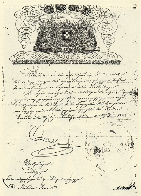 Ο Ίσκος αντιστράτηγος